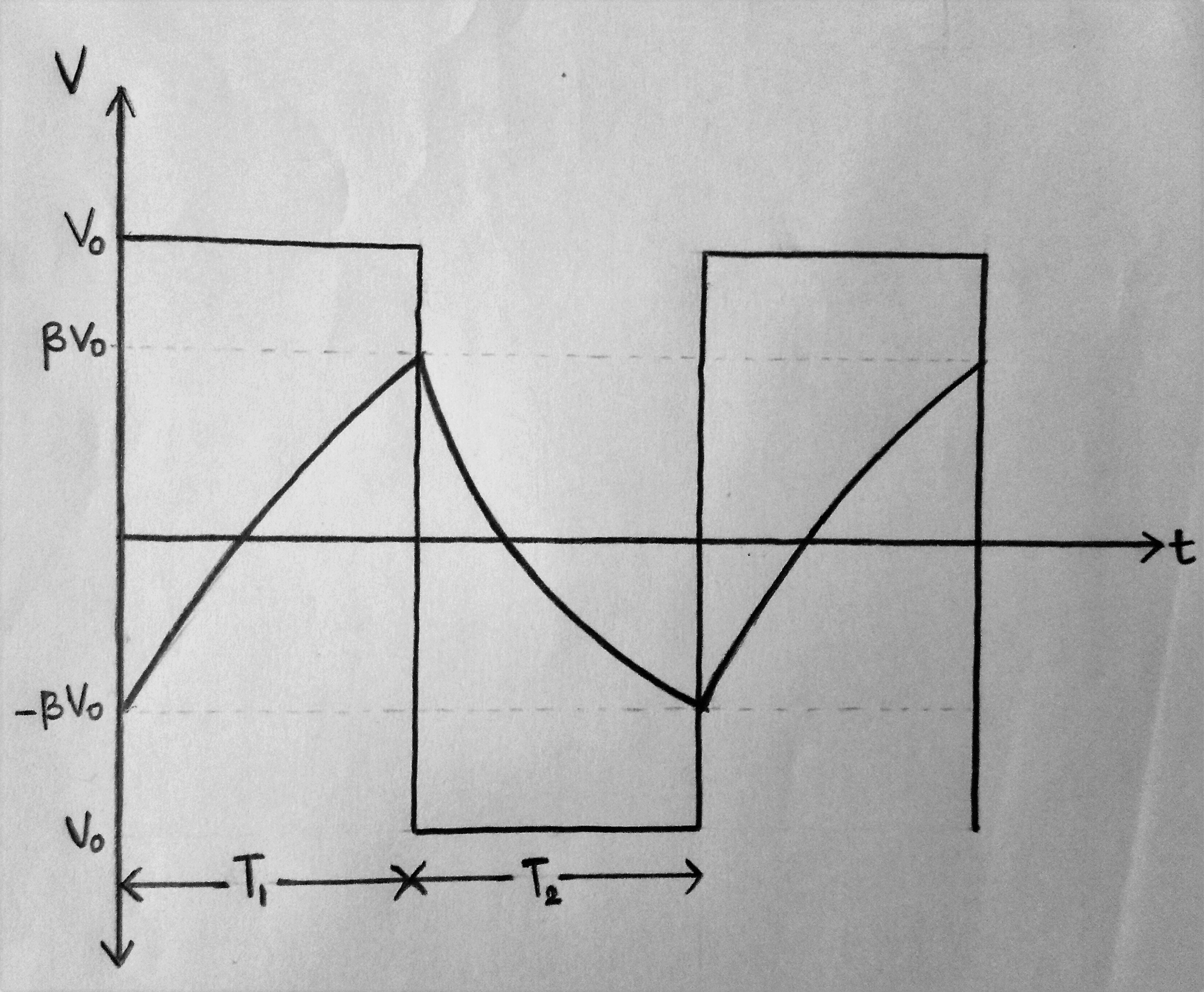 Astable Multivibrator using Op-Amp Graph